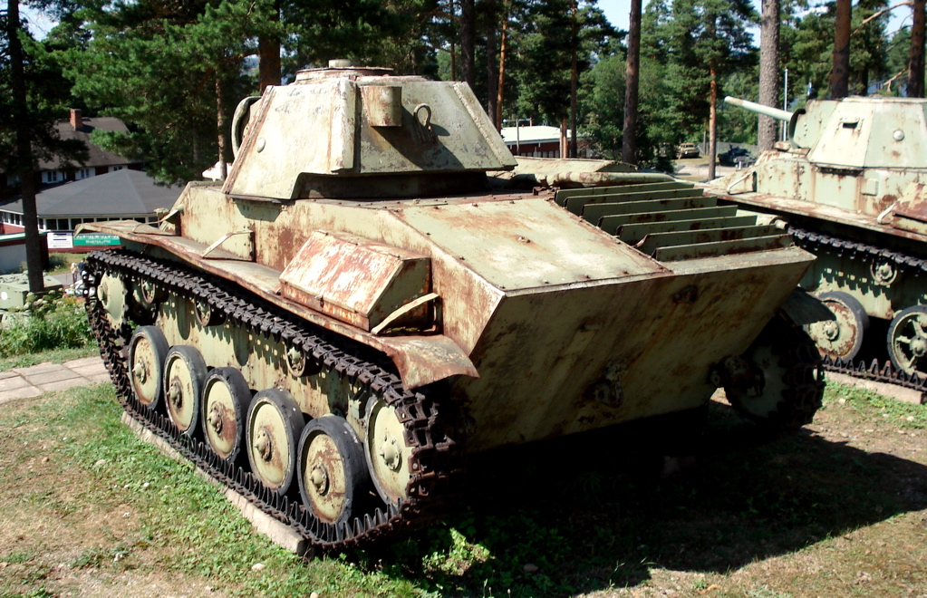 Soviet T-70 light tank, displayed in Finnish Tank Museum (Panssarimuseo) in Parola. The main gun is missing. Photo taken on July 14, 2006. Source: Photo by me, User:Balcer.